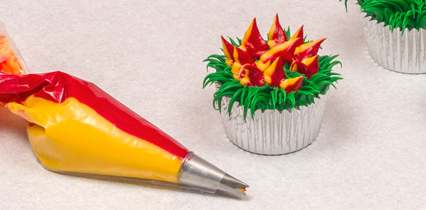 Piping bag and tip used for cake decorating.